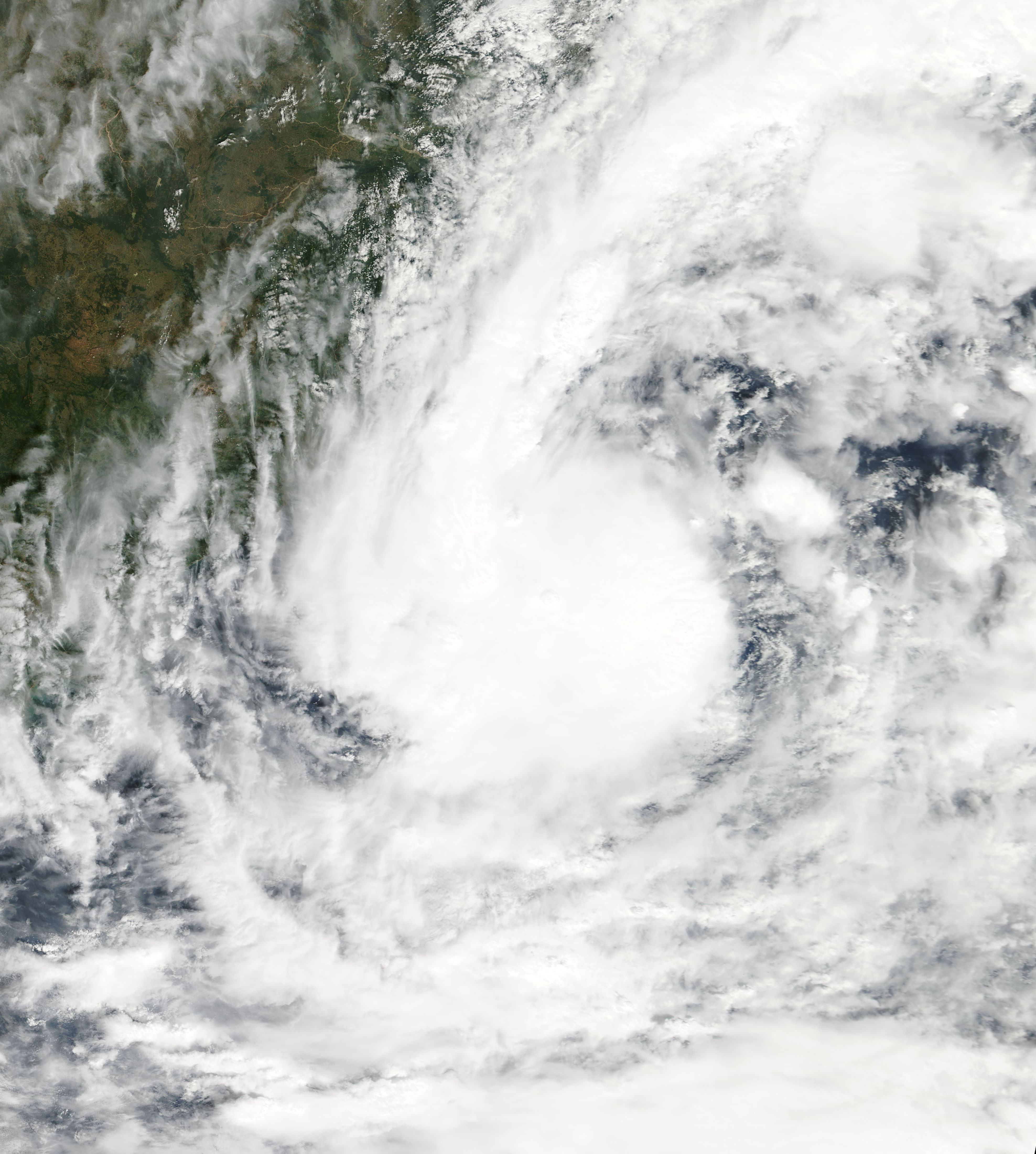 Cyclonic Storm Rashmi as a Deep Depression 24 hours before it was named. To get to the real image, go to 2008, then october, then 25th, then go to 520 and you will see the image.